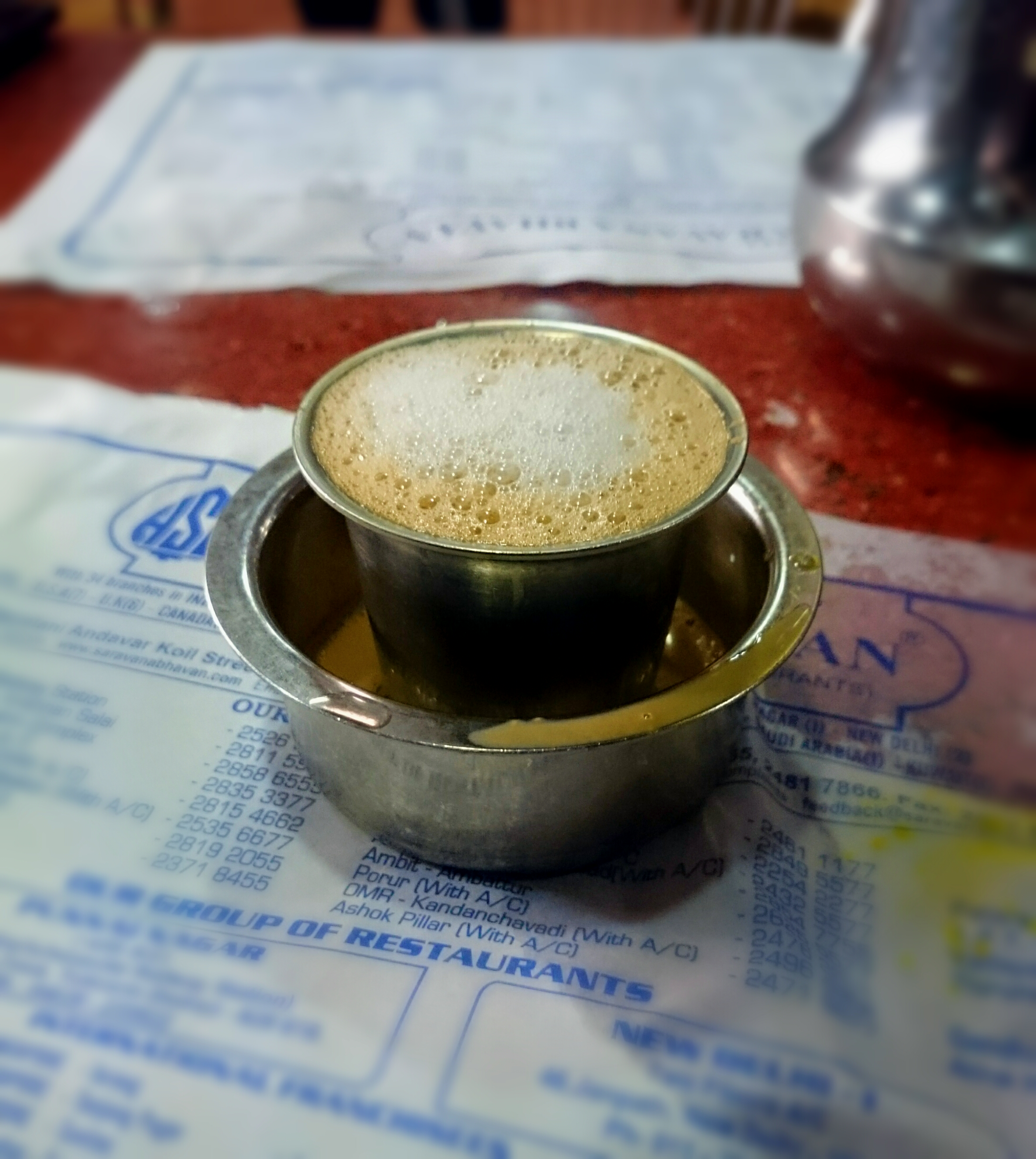 South Indian famous filter coffee from their famous chain of restaurants : Saravana Bhavan